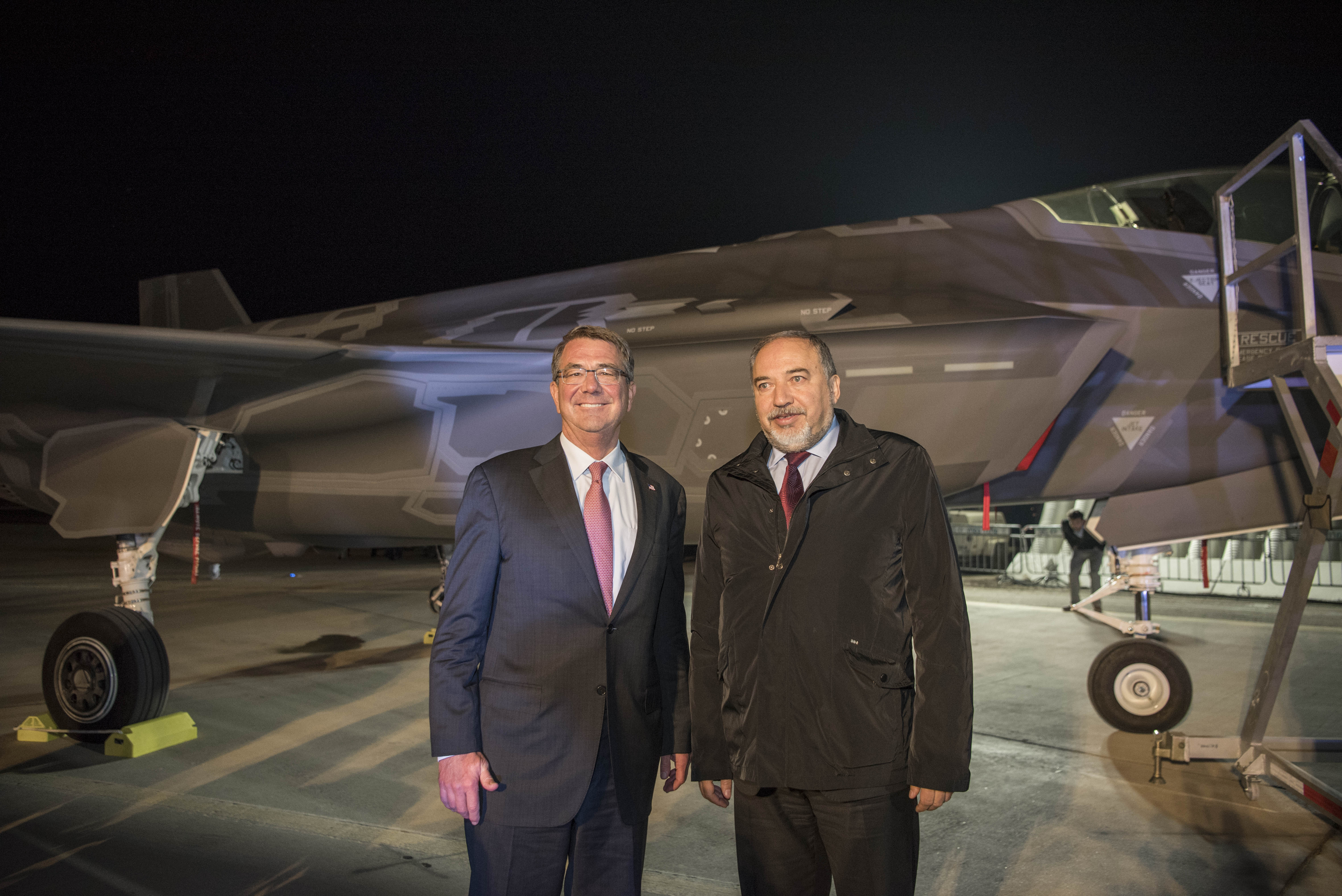 Secretary of Defense Ash Carter and Israeli Minister of Defense Avigdor Lieberman stand by one of Israel's first two F-35 Lightning II jets during a ceremony at Nevatim Air Base, Israel, Dec. 12, 2016. (DOD photo by U.S. Air Force Tech. Sgt. Brigitte N. Brantley)